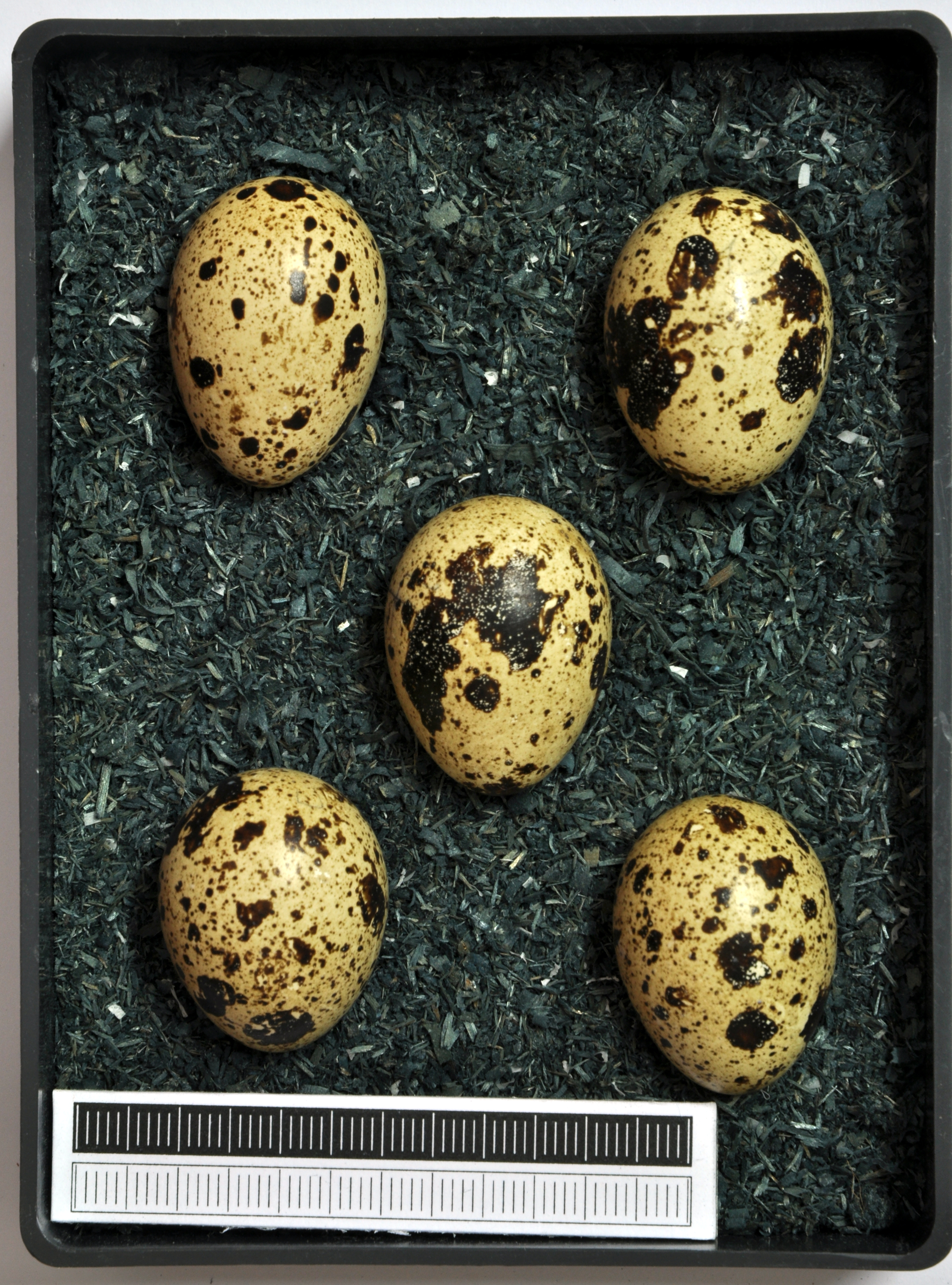 Common quail Coturnix coturnix, egg, Coll. Museum Wiesbaden, leg. W. Abelmann